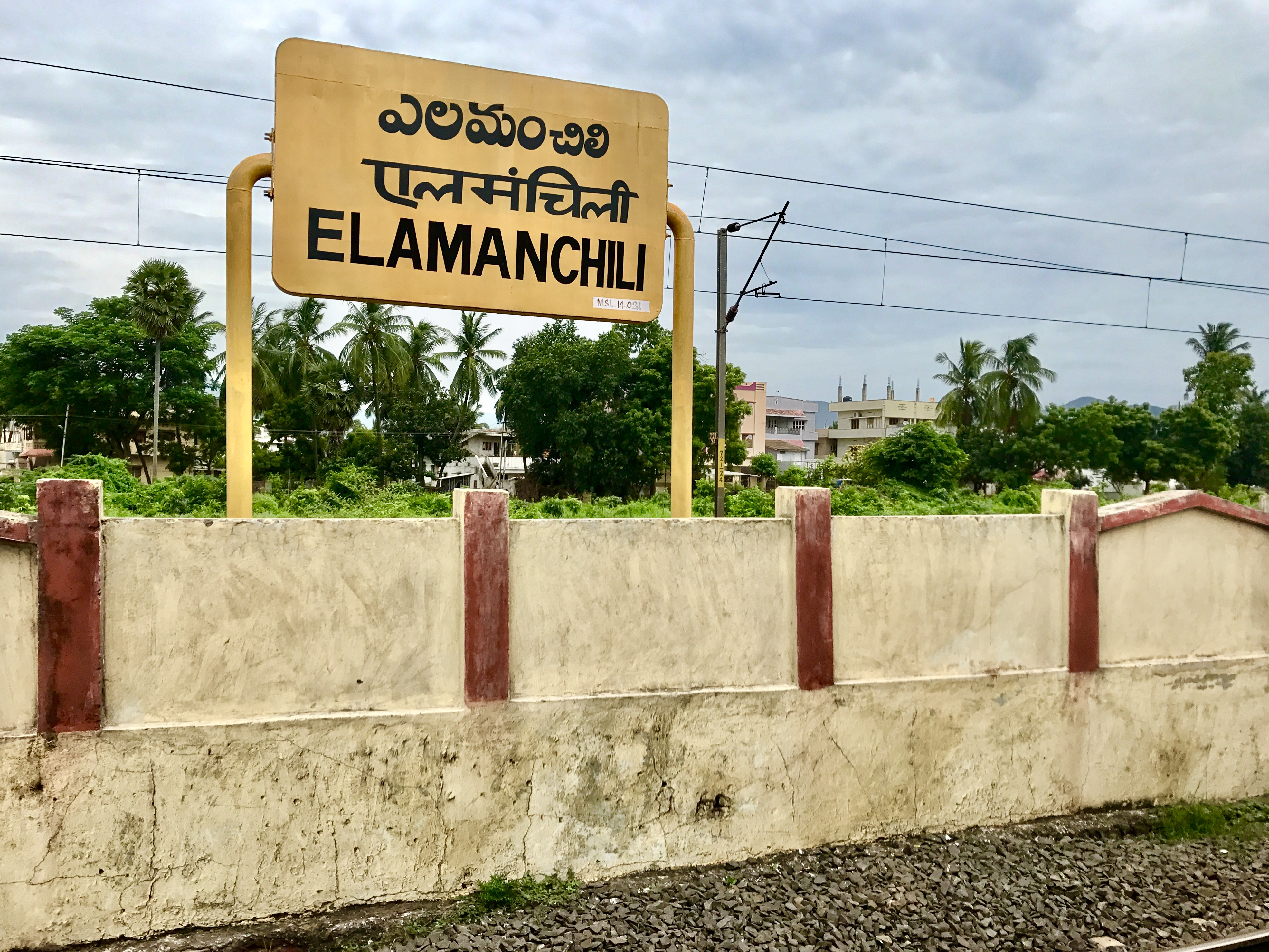 Elamanchili railway station board